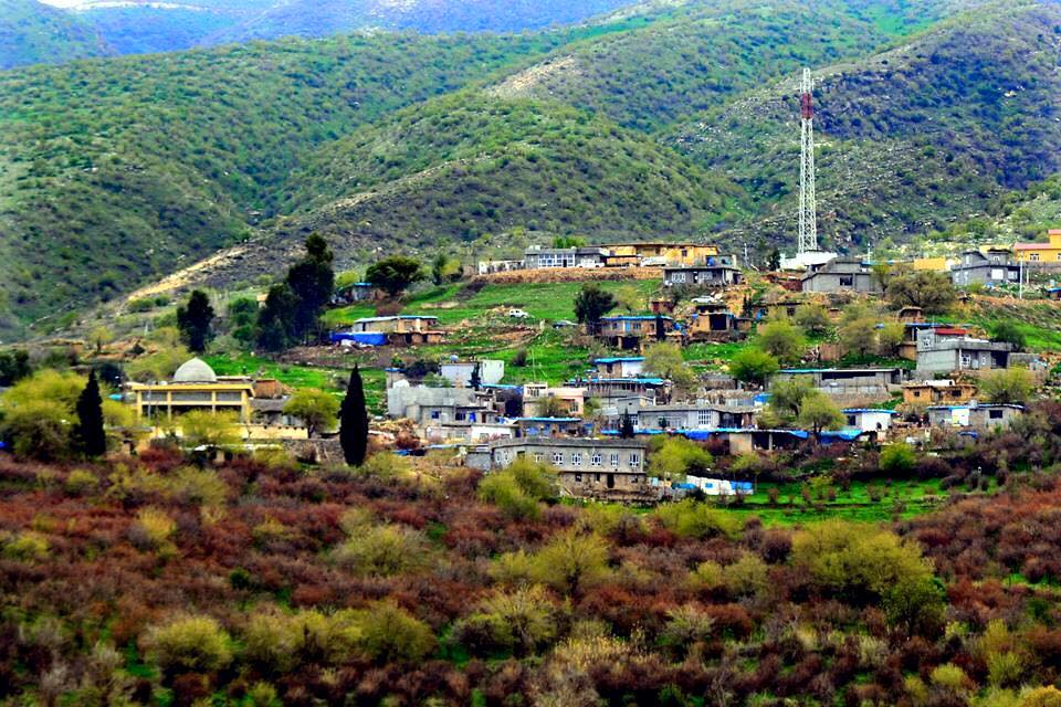 City of Rawanduz / Rawandiz in Iraqi Kurdistan